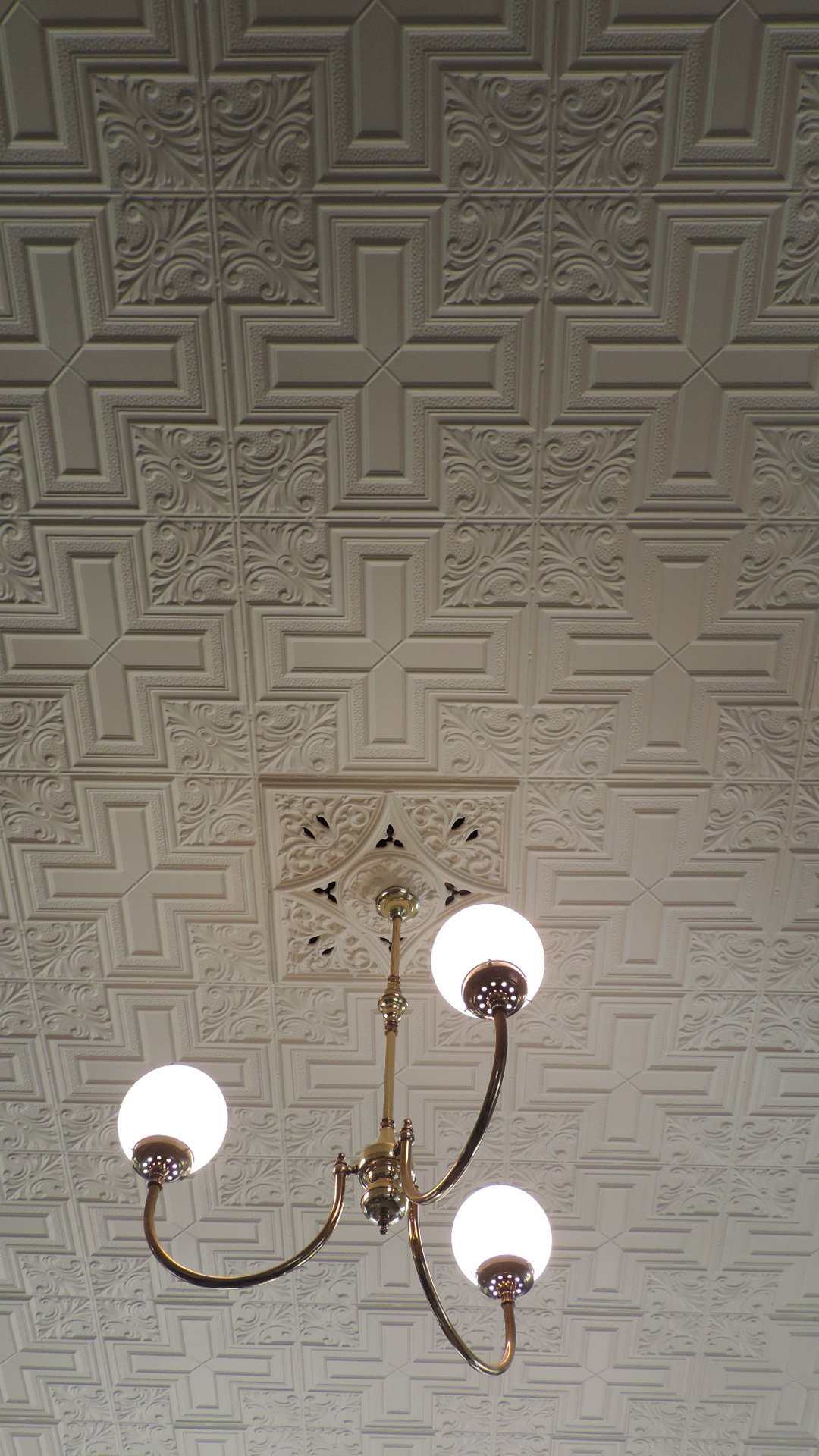 Our Lady of Assumption Convent, Warwick - pressed metal ceilings, 2015